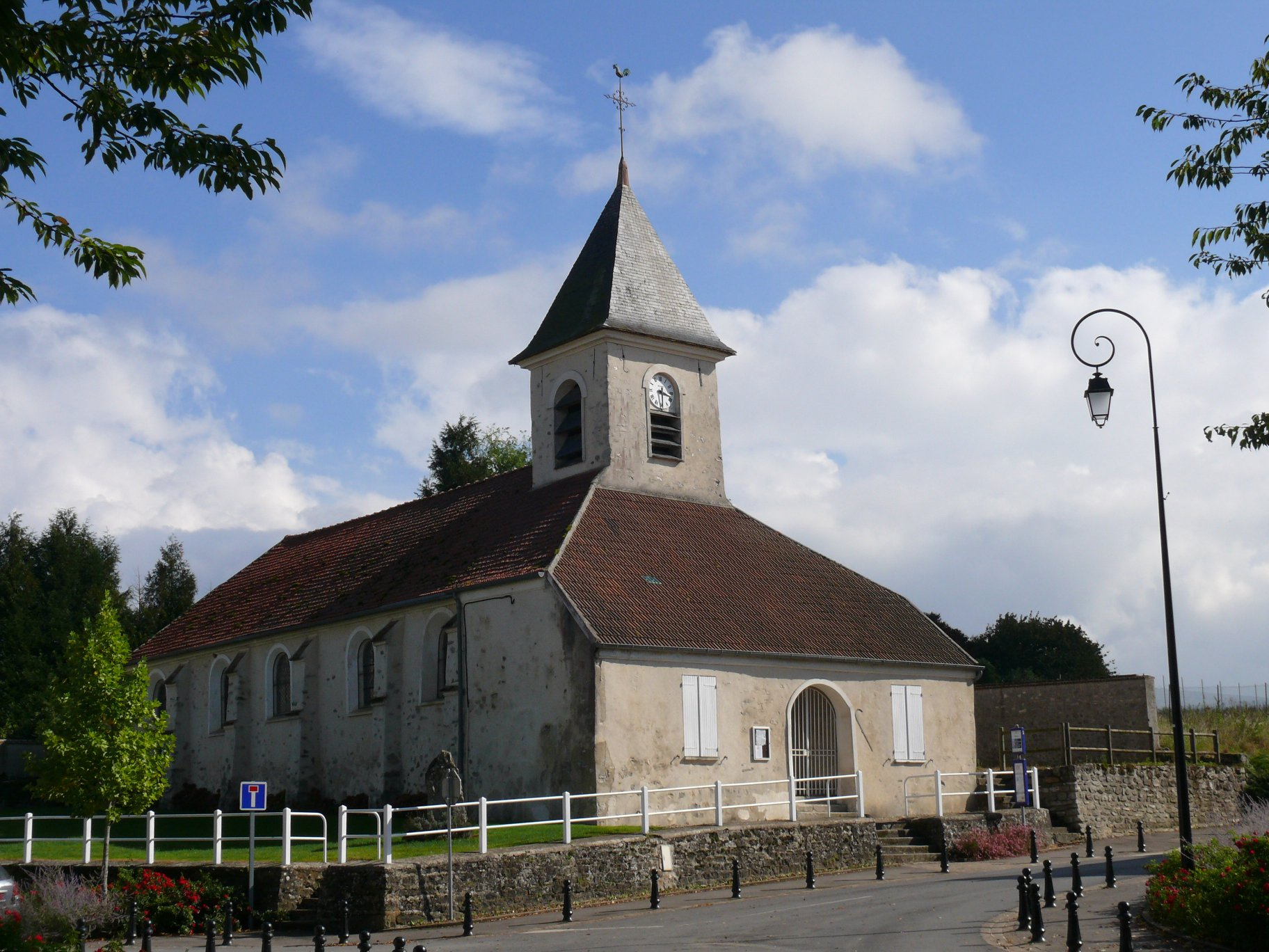 Sainte-Madeleine's church of Forfry (Seine-et-Marne, Île-de-France, France).